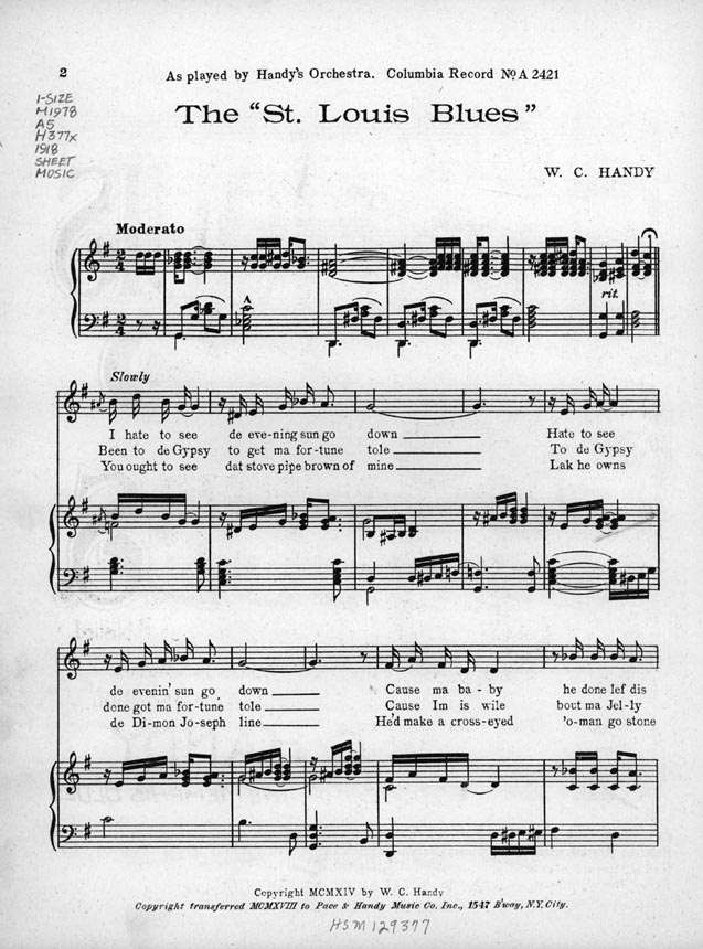 First page of W. C. Handy's "Saint Louis Blues"